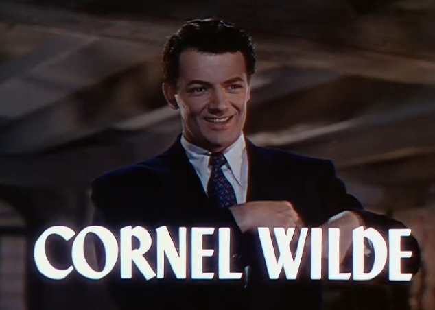 Screenshot of Cornel Wilde from the film Leave Her to Heaven.